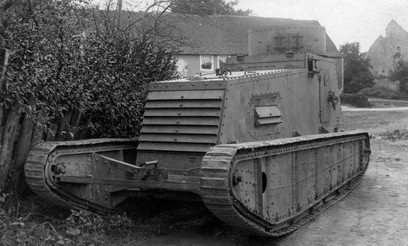 1917, german light tank "LK 1", based on the british Whippet design